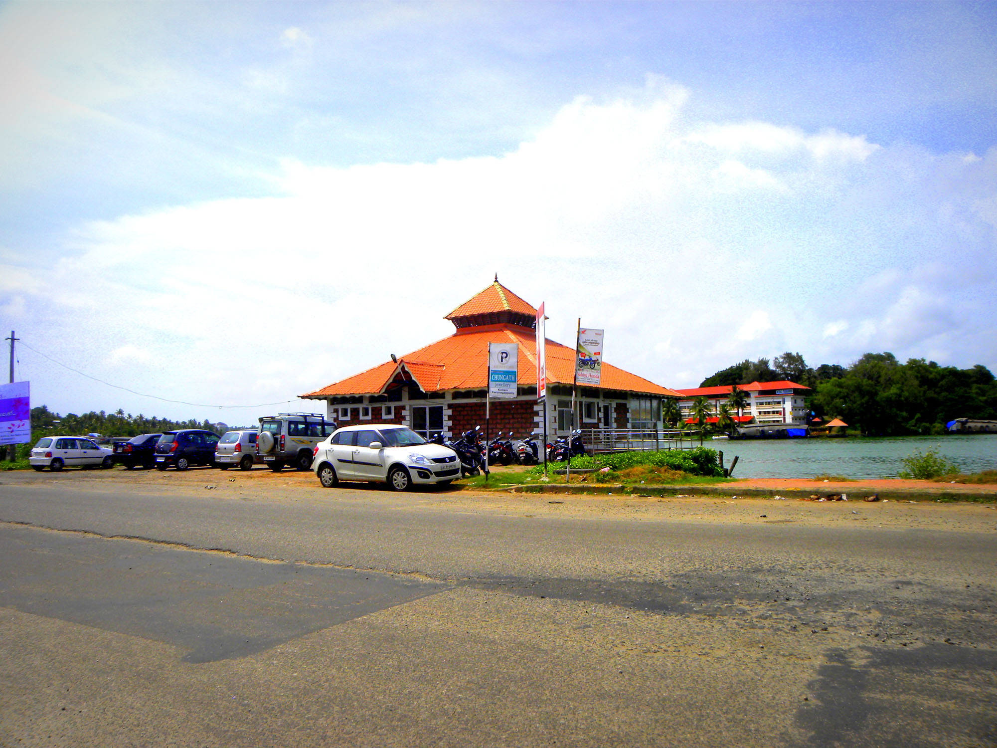 Gateway to the Backwaters-1, Near KSRTC, Kollam - Kollam is Known as the Gateway to the Backwaters of Kerala